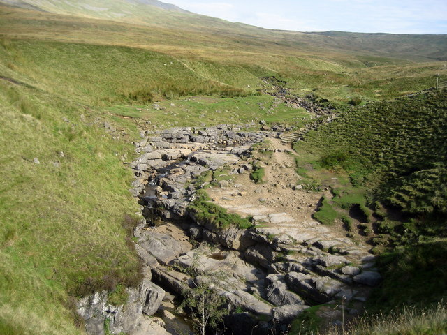 Fell Beck This is Fell Beck just before it disappears into the chasm of Gaping Gill, having risen on the Clapham Bents below the summit of Ingleborough.